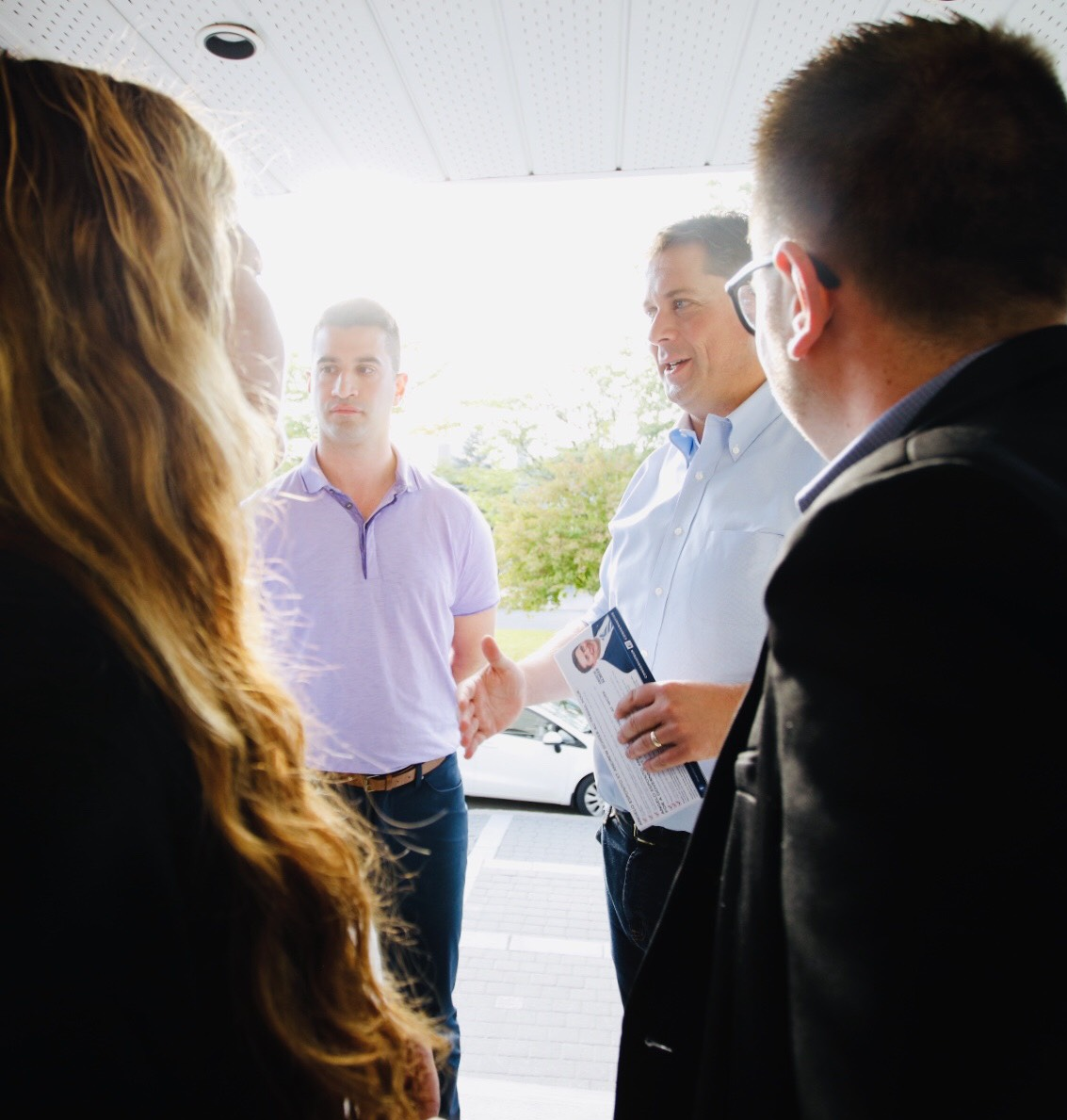 Victory is knocking! Hit the doors in Laval with our Conservative candidate Angelo Esposito. The people of Alfred-Pellan are ready to get ahead!